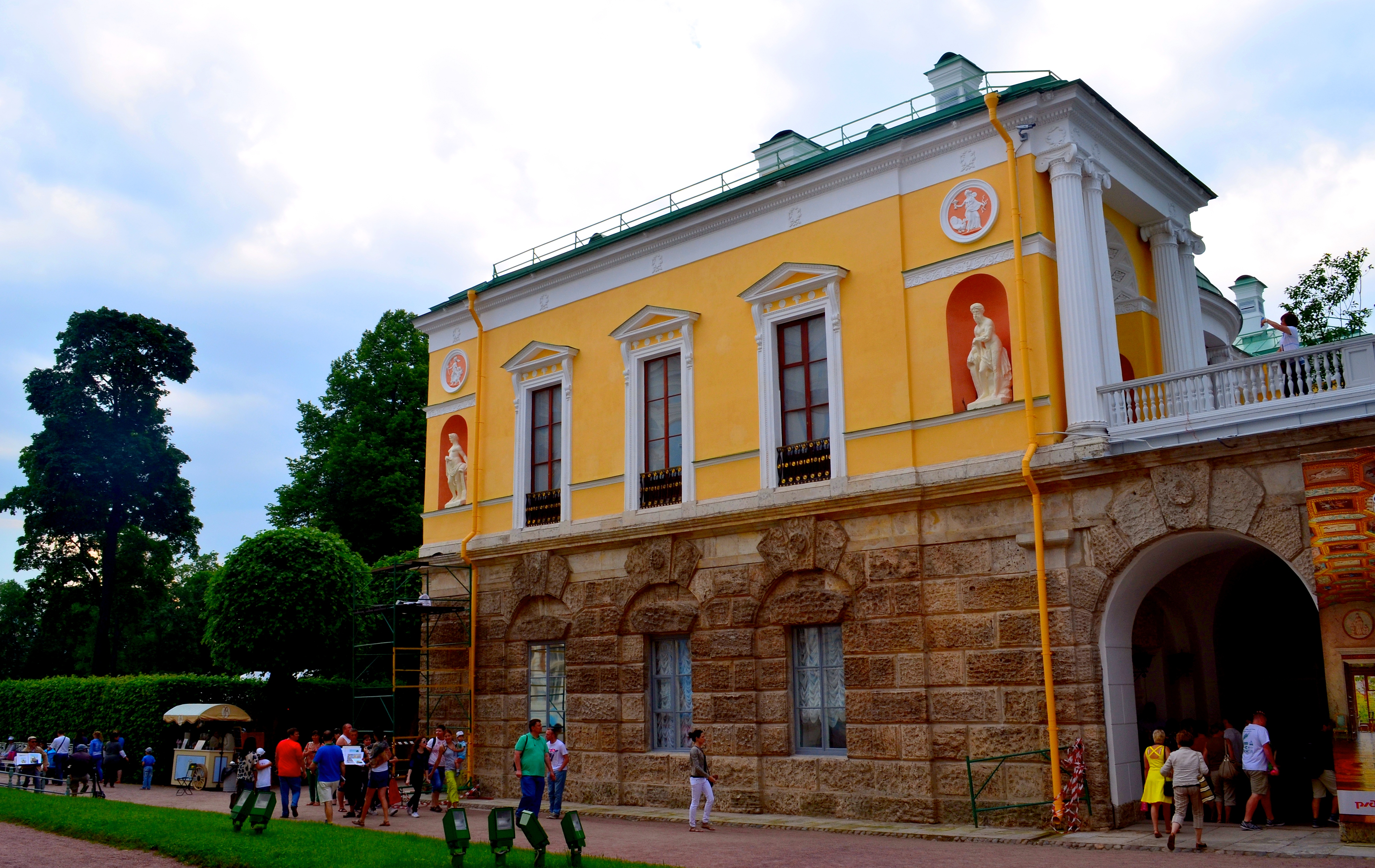 Agate rooms: Catherine Park, near the Cameron Gallery, Pushkin, Pushkinsky District, St. Petersburg